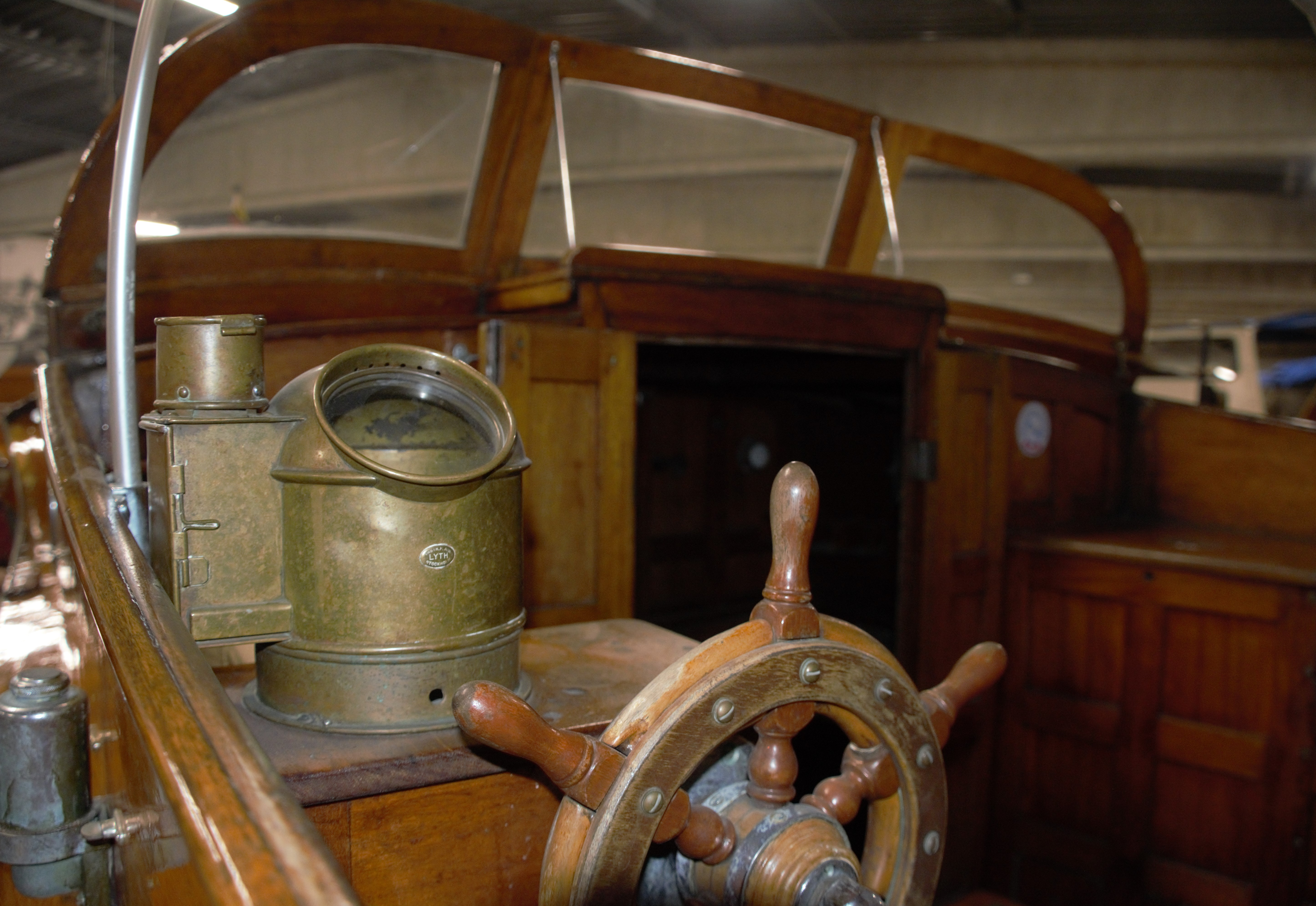 Cockpit of motor yacht Wiking X, designed by C.G. Pettersson